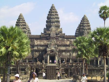 Angkor Wat temple, by Andrew Lih